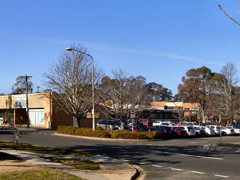 Author: User: Gimboid13 Description: Waramanga shopping centre, Waramanga ACT, Australia looking across Damala St. taken 29 August, 2005.